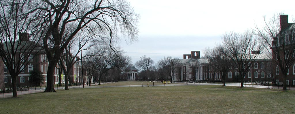 Picture I took of the North half University of Delaware mall The road in the center of the picture is Delaware Avenue. Category:Images of Delaware Category:University of Delaware